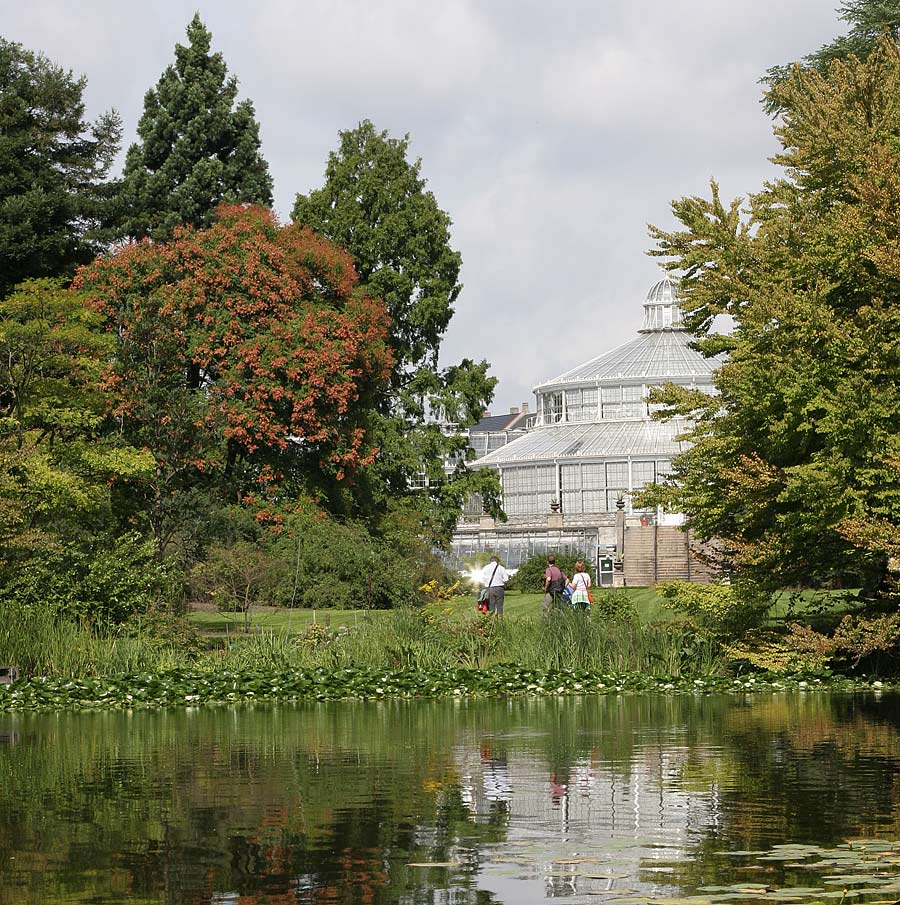 View in Botanisk Have (University of Copenhagen Botanical Garden) in Copenhagen, Denmark. The Palm House is seen in the background.